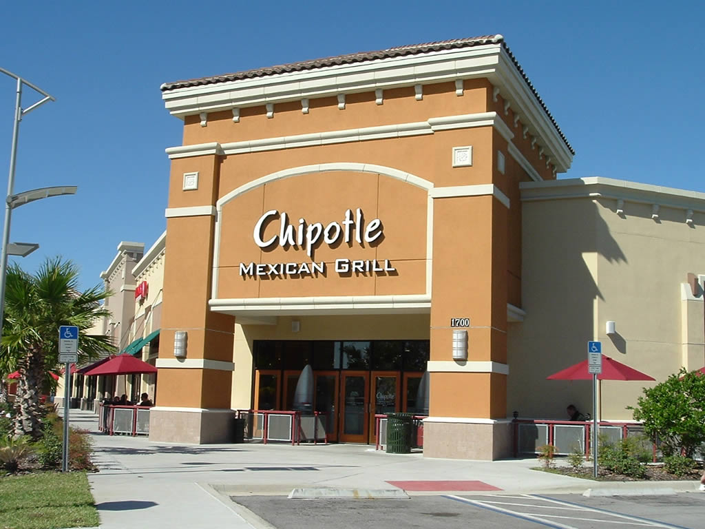 The exterior of Chipotle Sand Lake Road location (in Orlando, Florida)